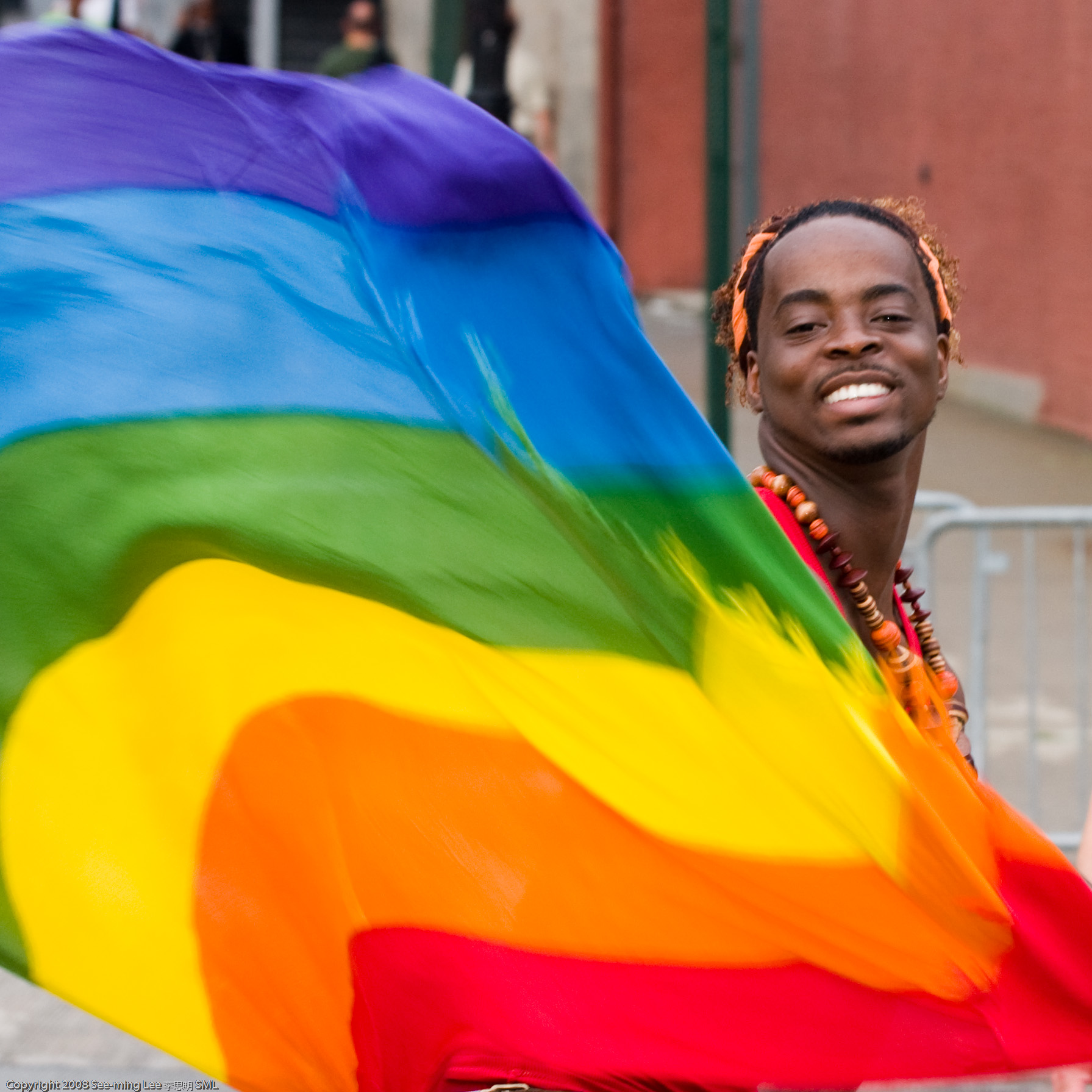 A man with a rainbow flag at the Gay Pride parade in New York City, 2008.